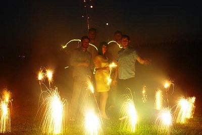 Headlights Press Photo